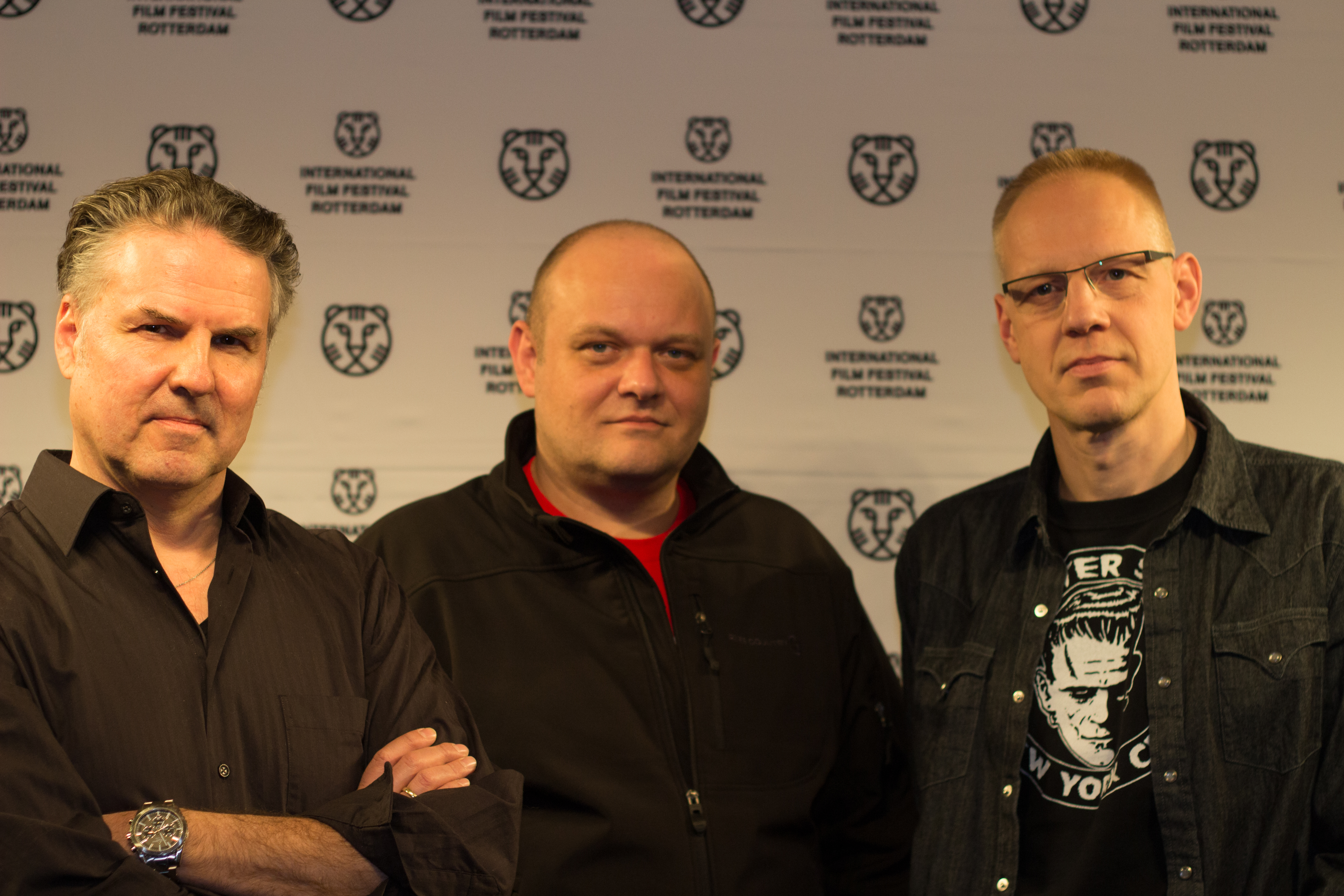 German Angst cast & crew (and friends) Directors Jörg Buttgereit, Michal Kosakowski, Andreas Marschall Production country & year Germany - 2015 Length 110 min Premiere World premiere Producer Michal Kosakowski, Andrea Staerke Screen play Anna Bonasso, Jörg Buttgereit, Andreas Marschall, Goran Mimica With Milton Welsh, Daniel Faust, Denis Lyons, Annika Strauss, Matthan Harris, Andreas Pape, Desiree Giorgetti Camera Sven Jakob Editor Michal Kosakowski, Andreas Marschall Production design Jörg Möhring Sound design Dieter Hebben, Lukas Lücke Medium DCP Website